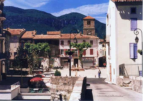 The Place de la Republique, Quillan. Photgraphed by Matt Reef